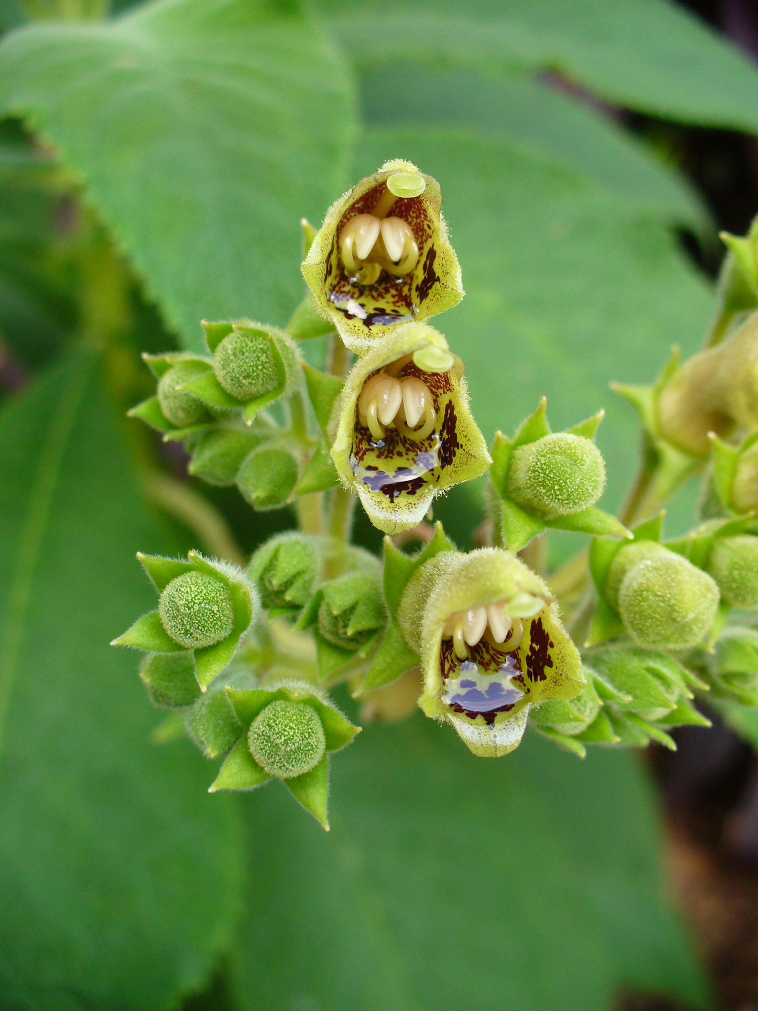 cultivated, South Miami, Florida, USA. You can see the nectar pooling in the corolla. No wonder the hummingbirds like this plant.